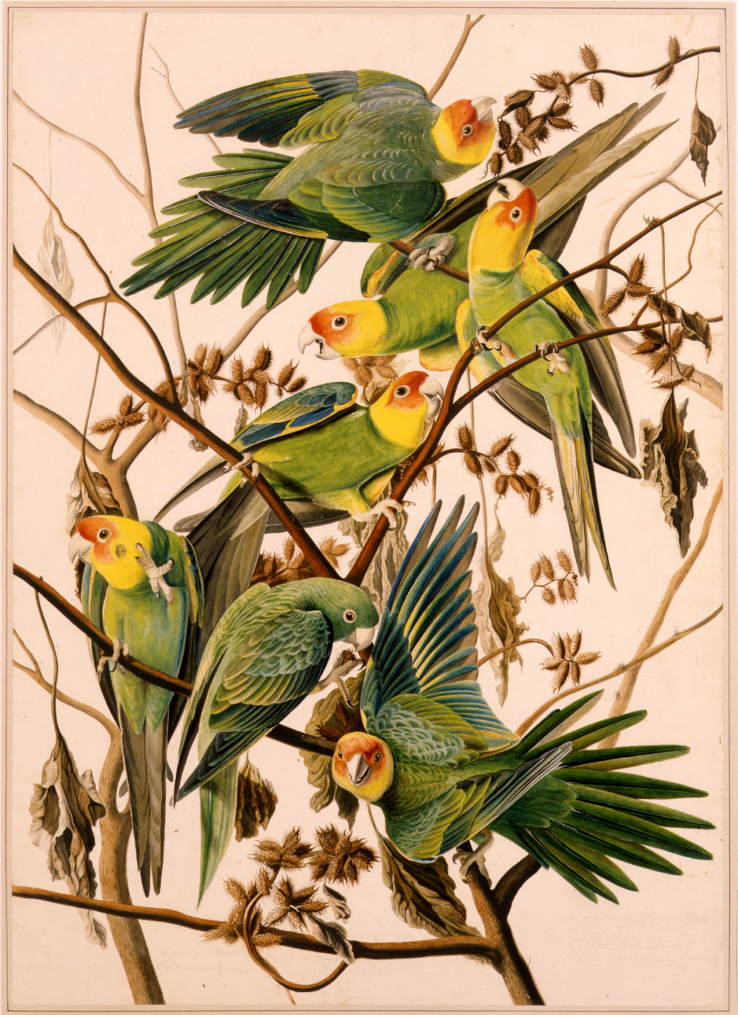 John James Audubon's "Carolina Parakeets" which is a part of the permanent collection at the New York Historical Society.